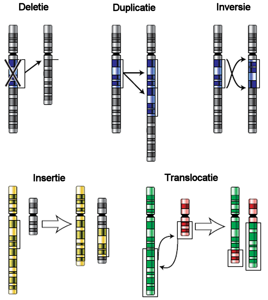 Scheme of possible chromosome mutations.